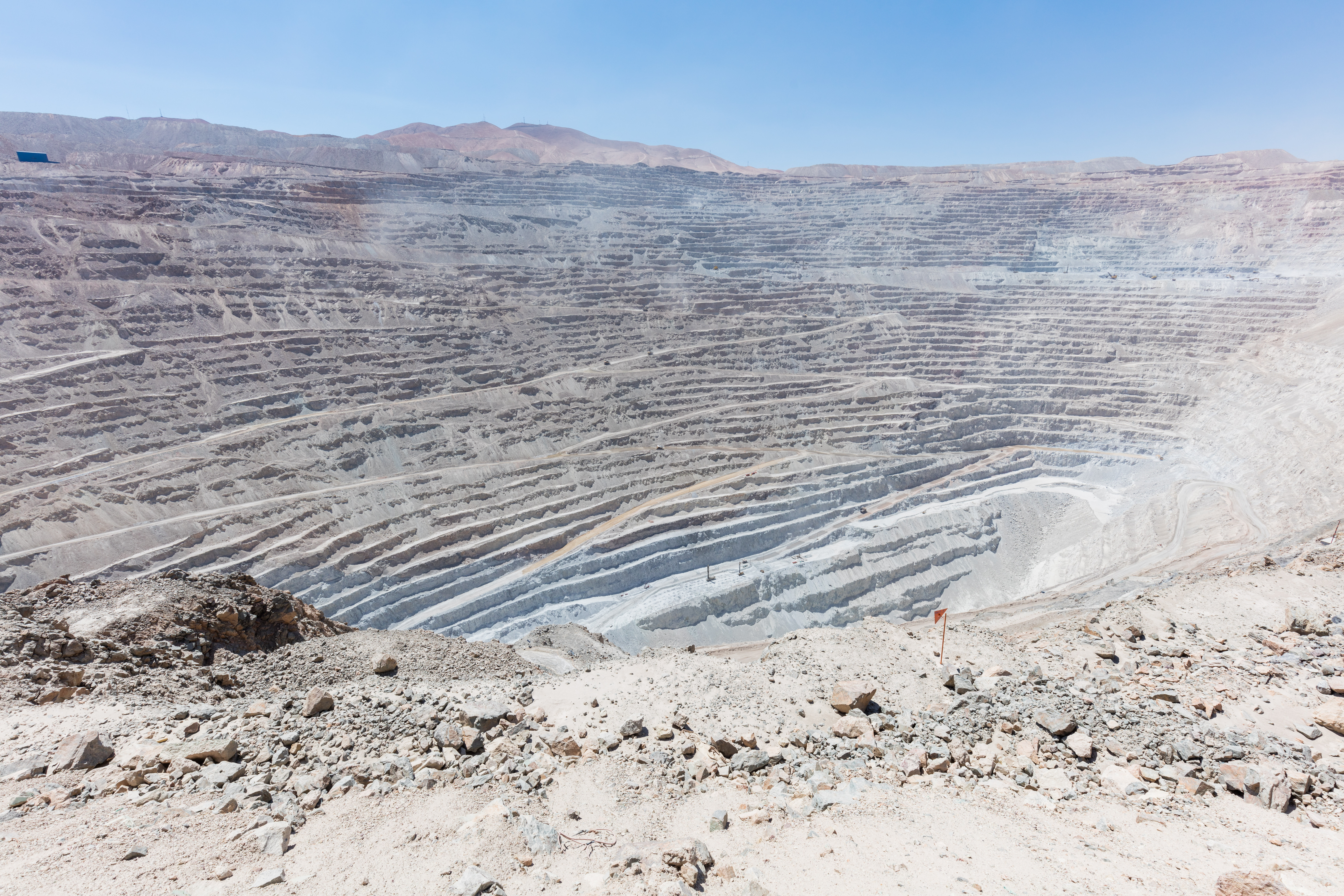 Chuquicamata Mine, Calama, Chile